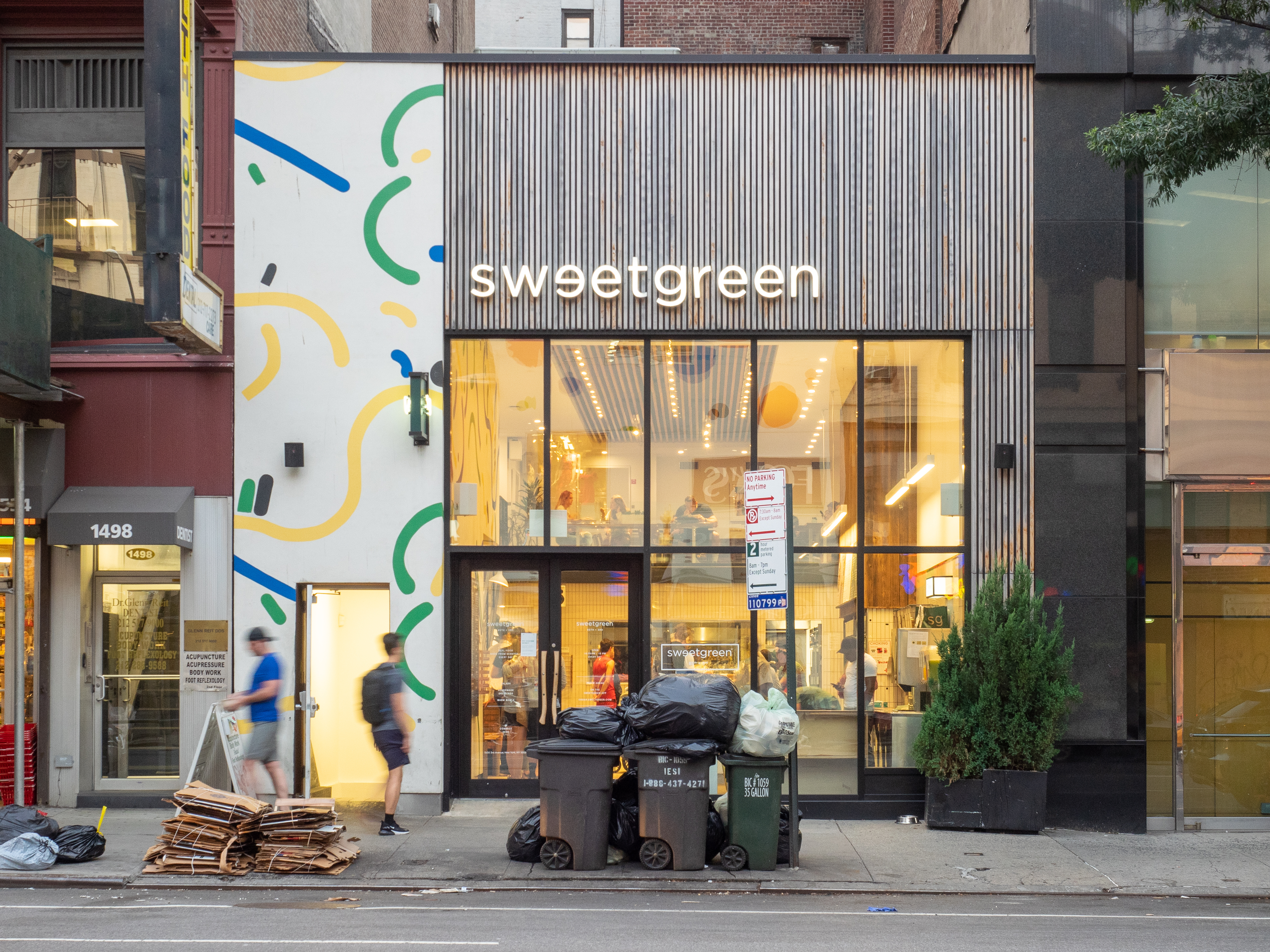 Upper East Side, Manhattan, New York